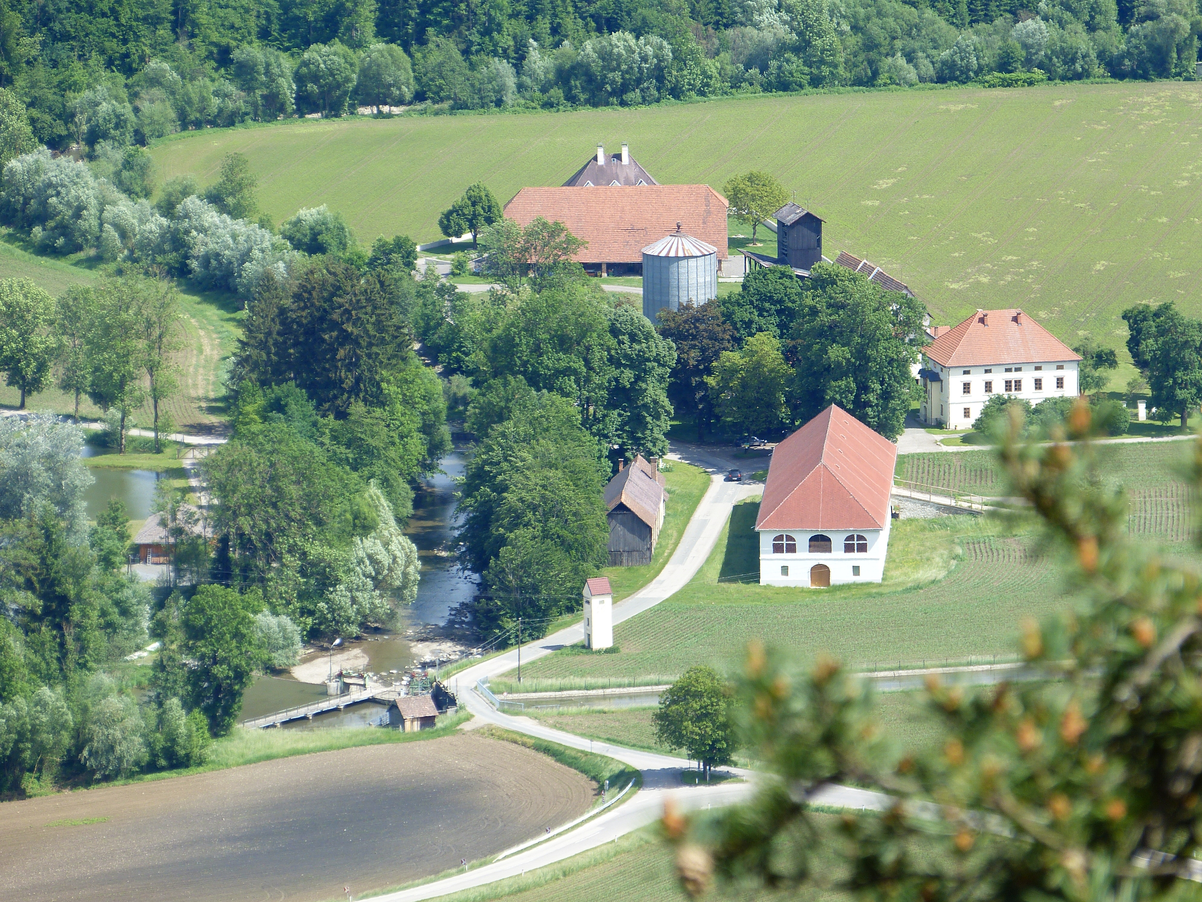 Unterbruckendorf, municipality Sankt Georgen am Längsee, district Sankt Veit an der Glan, Carinthia / Austria / EU